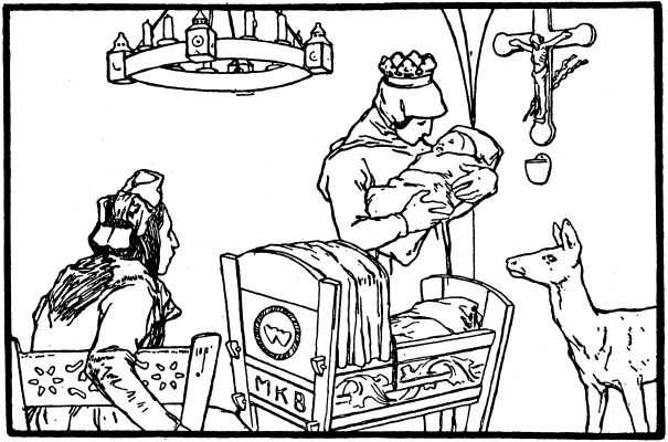 Illustration by Otto Ubbelohde to the fairy tale Brother and Sister